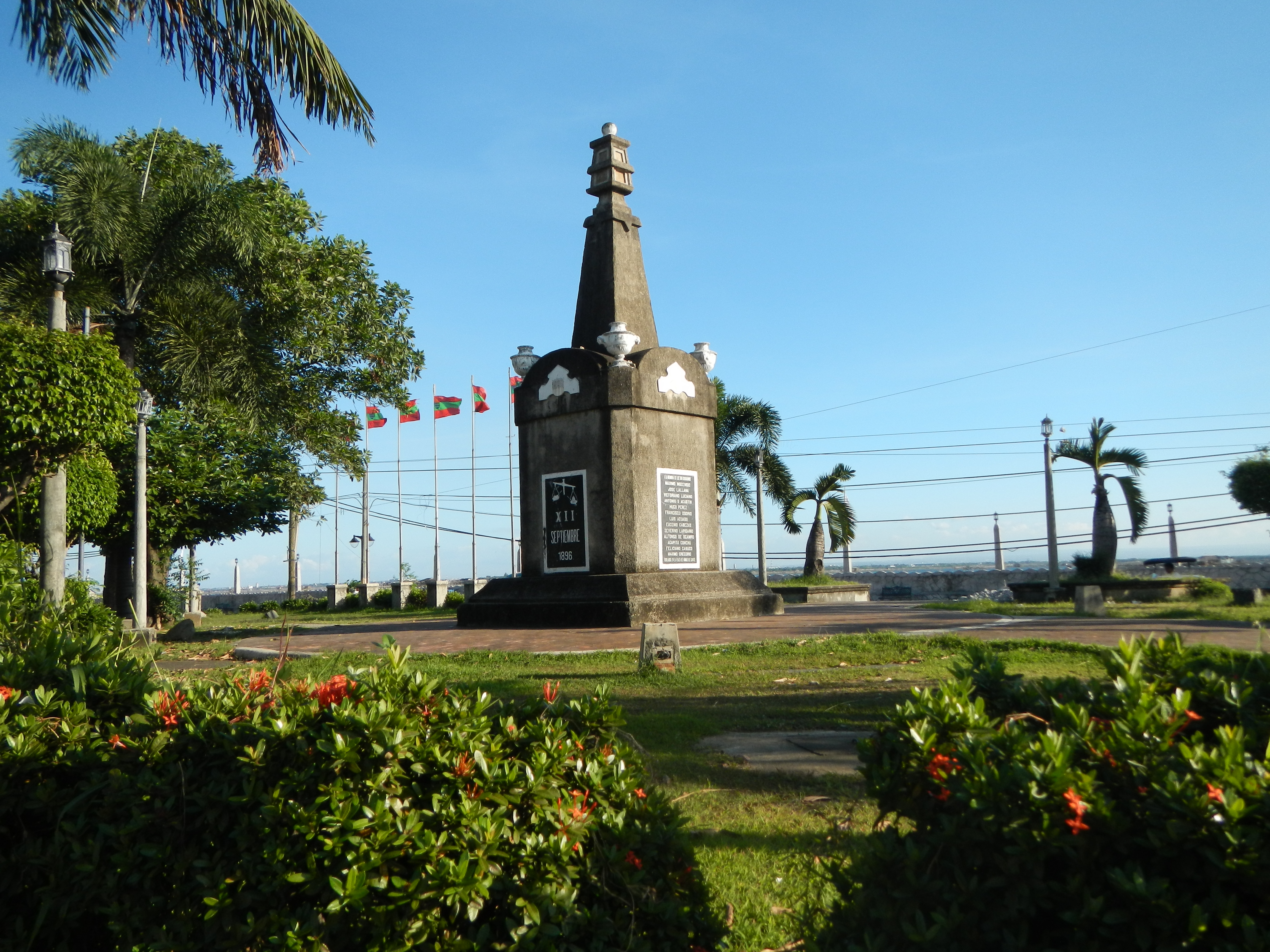 Thirteen Martyrs Monument in Samonte Park, Cavite City